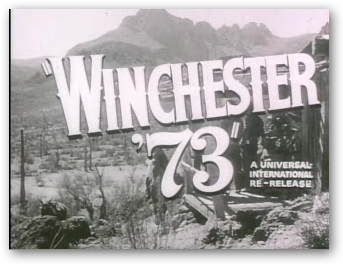 Cropped screenshot of the film Winchester '73